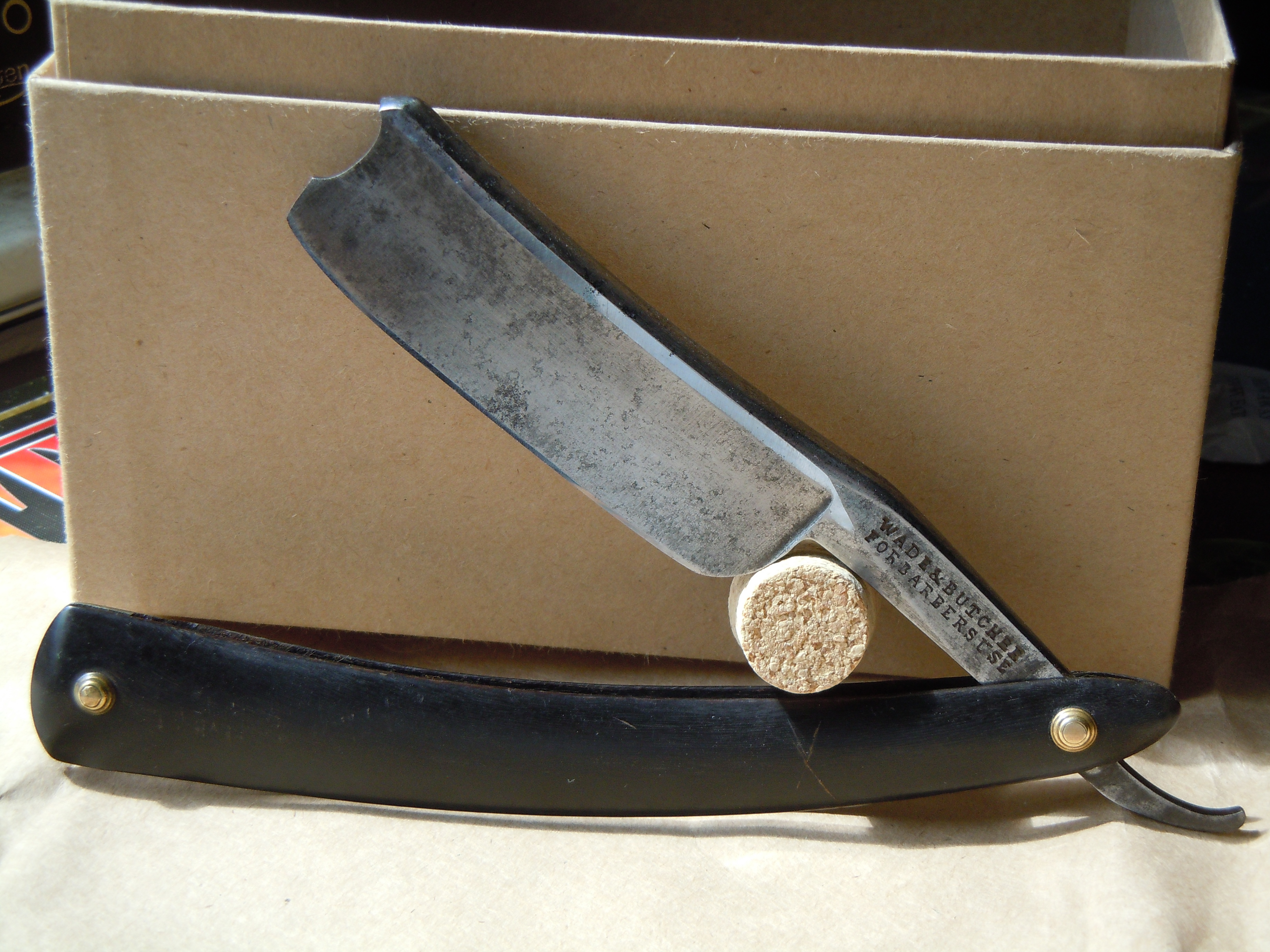 My semi-restored and self-honed W&B.